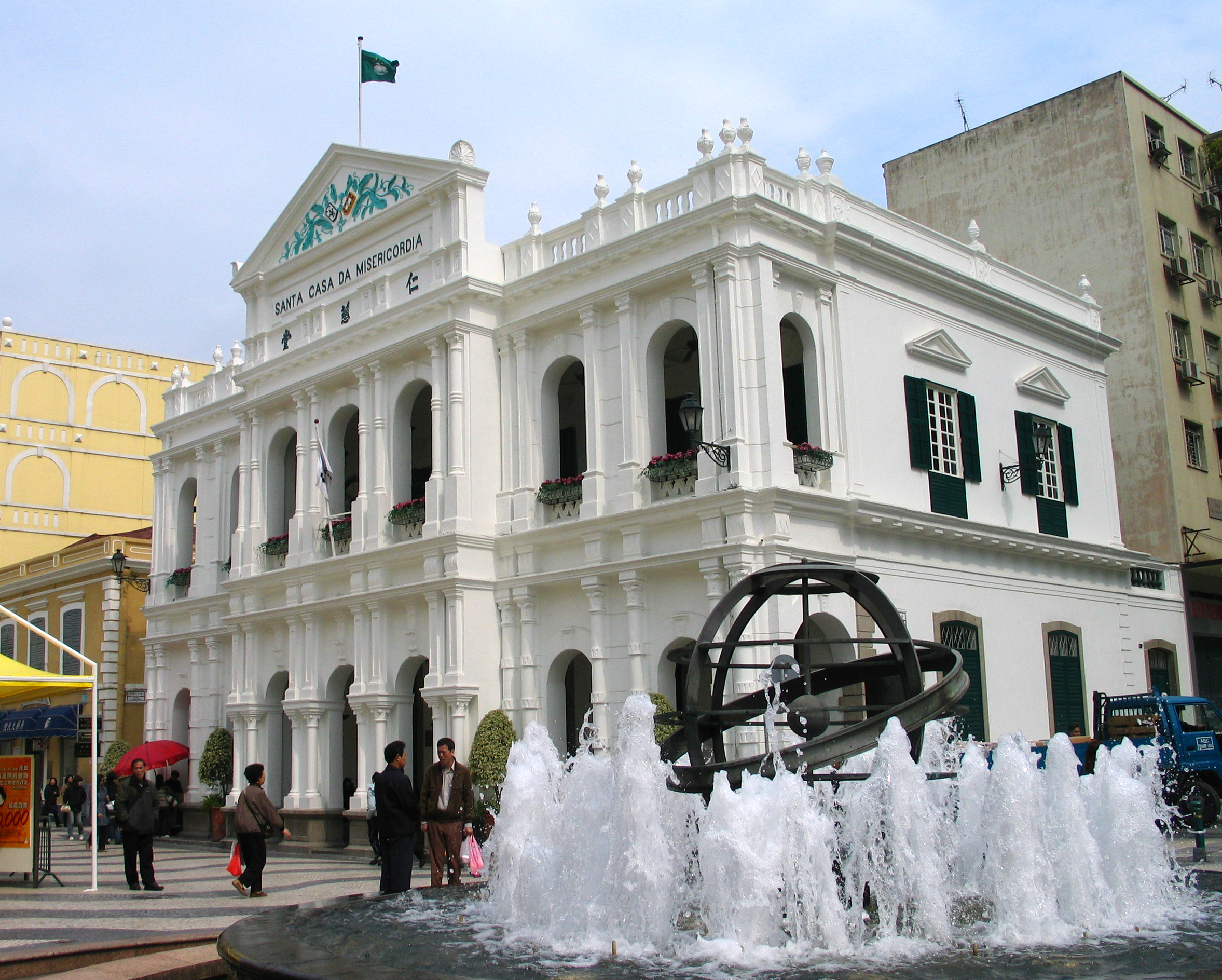 Santa Casa da Misericordia in Macao 澳門仁慈堂大樓 Source: taken by myself, using Canon Powershot G5